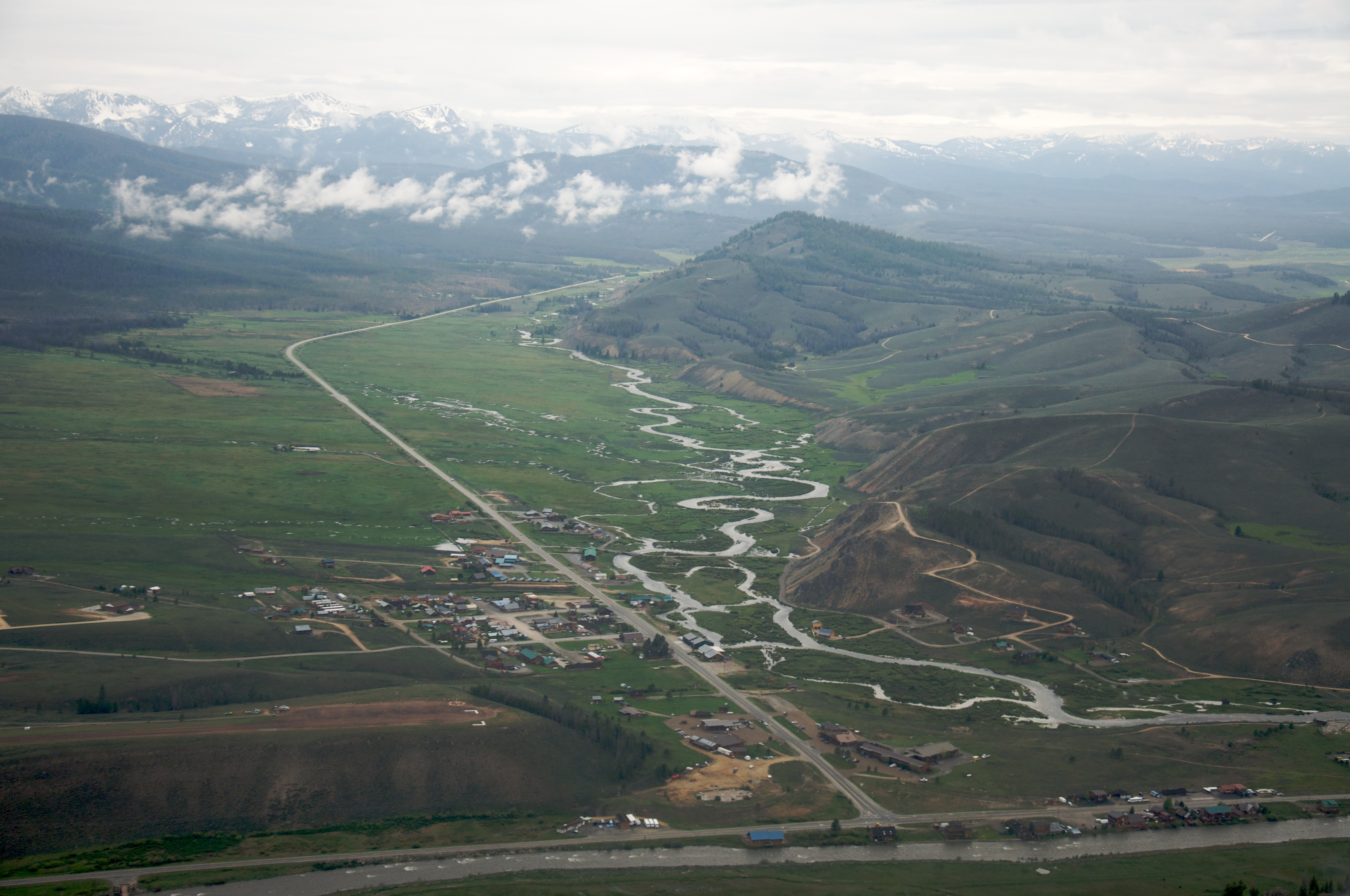 Aerial view of Stanley, Idaho, United States